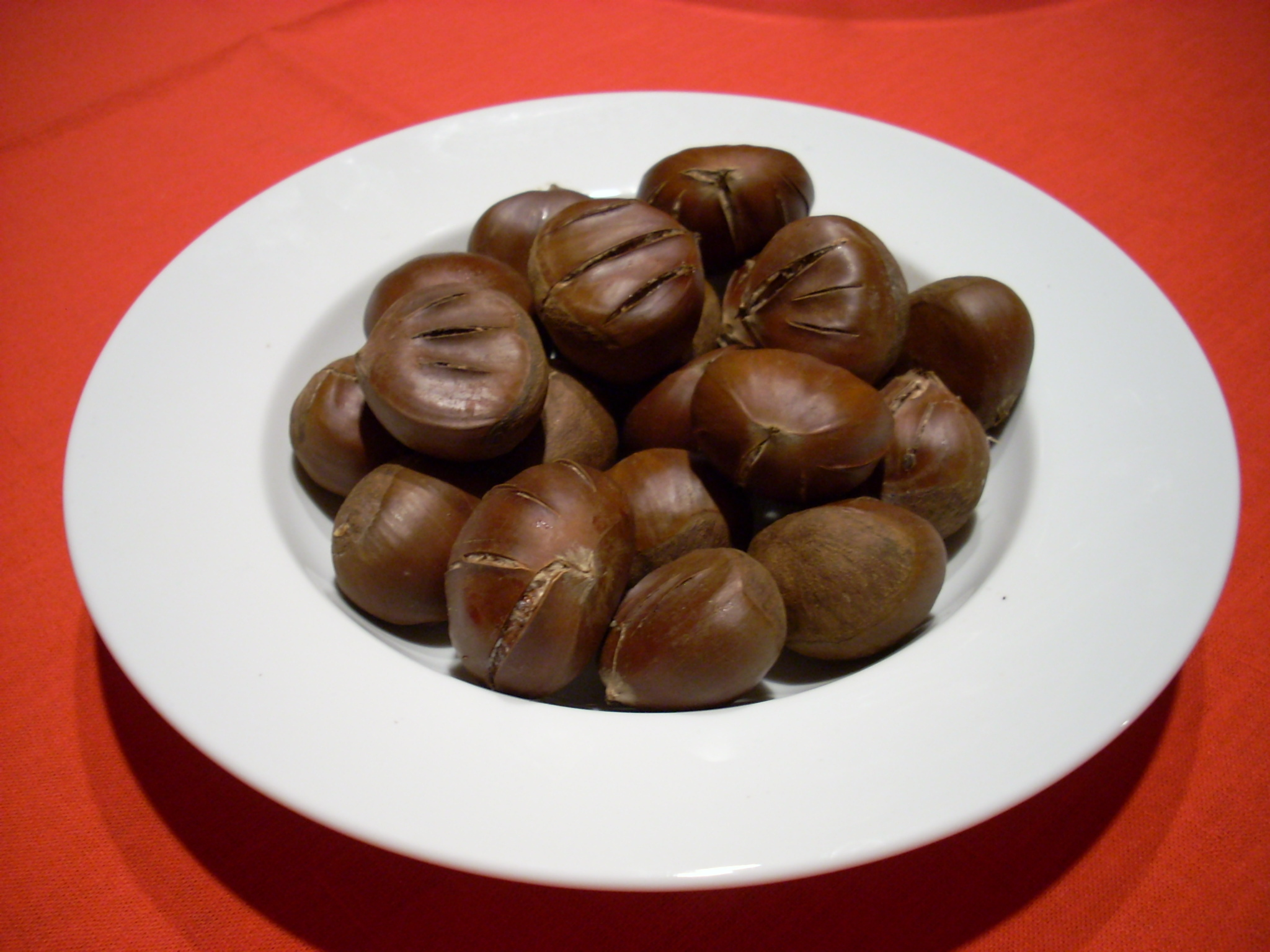 Roasted, unpeeled chestnuts; nuts grown in California